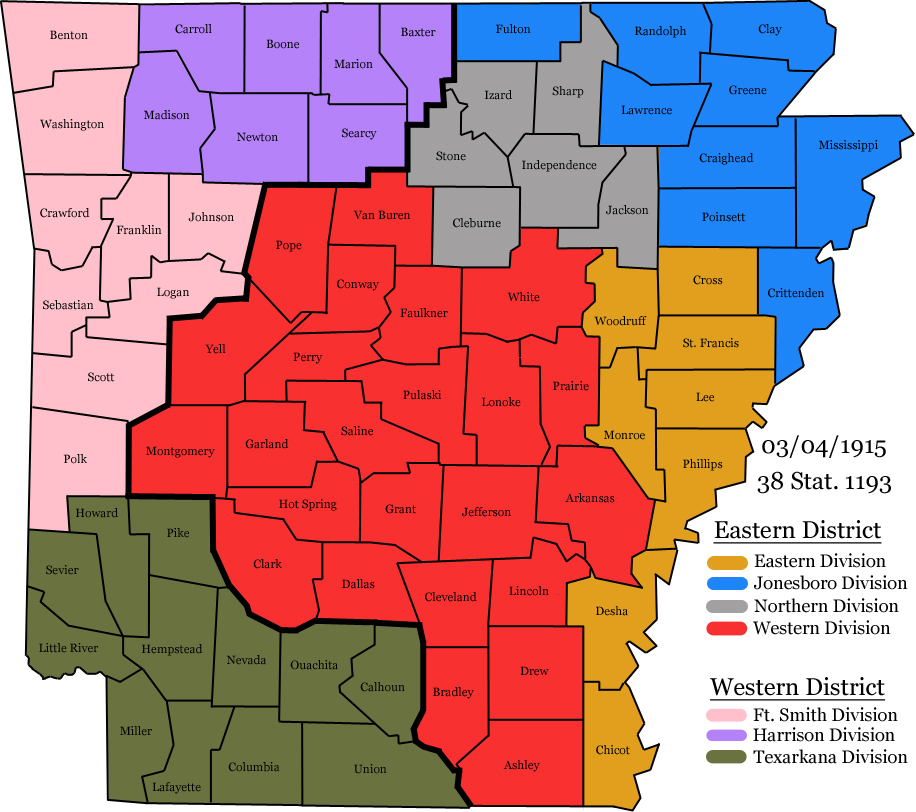 Arkansas districts - 1915